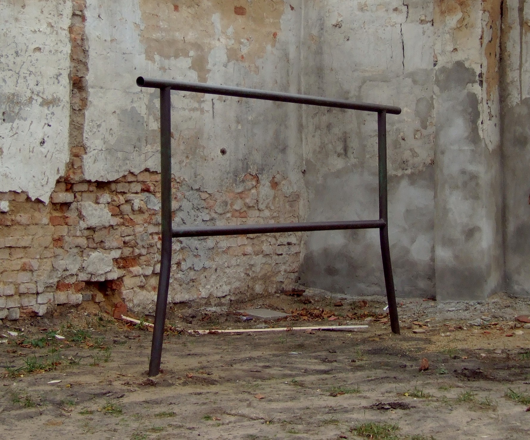 A beater